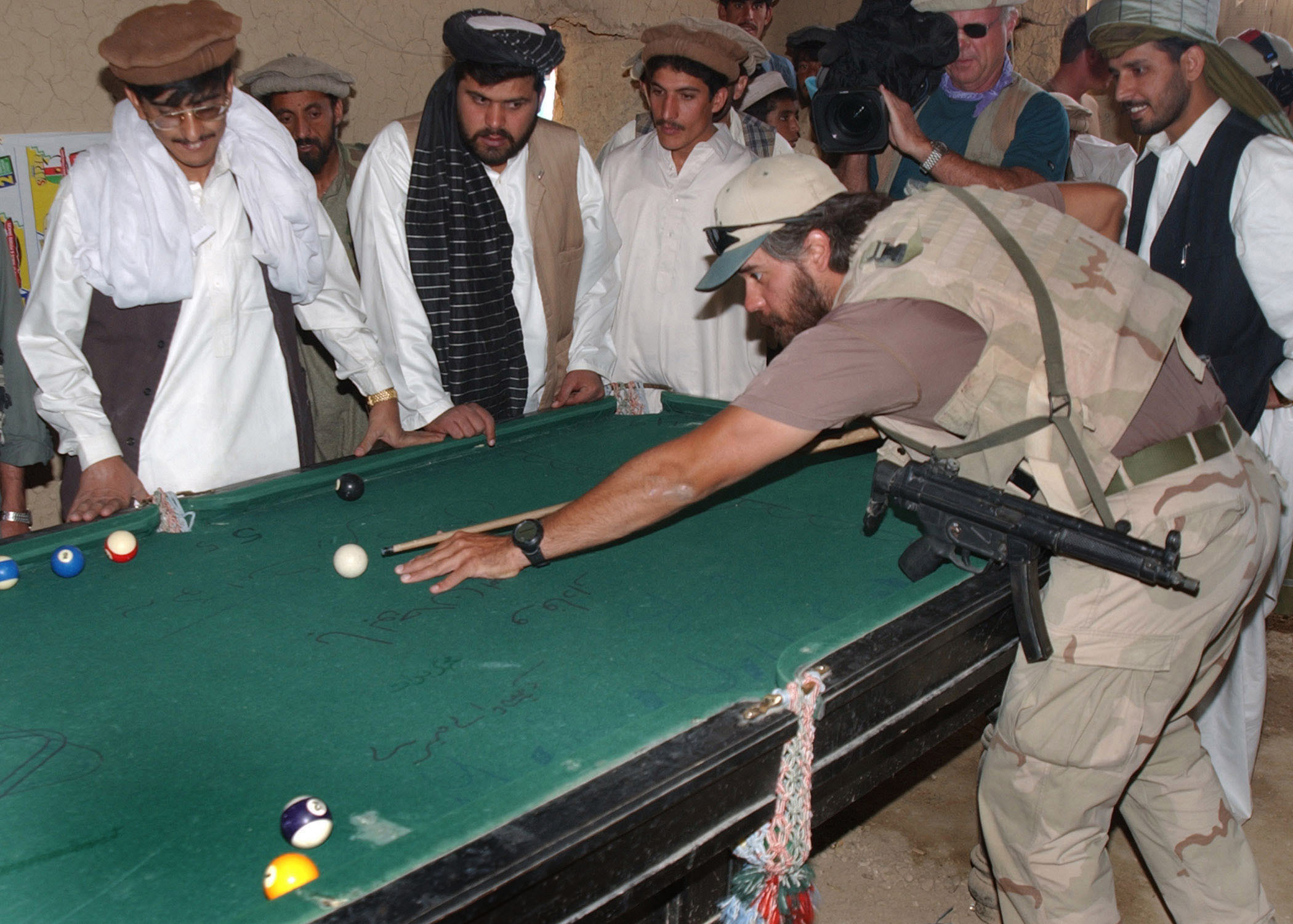 An unidentified U.S. Army (USA) Special Forces soldier, armed with a Heckler and Koch 9mm MP5A3 sub-machine gun, plays a game of pool with local Afghani teens in a small village in Afghanistan, during Operation ENDURING FREEDOM.